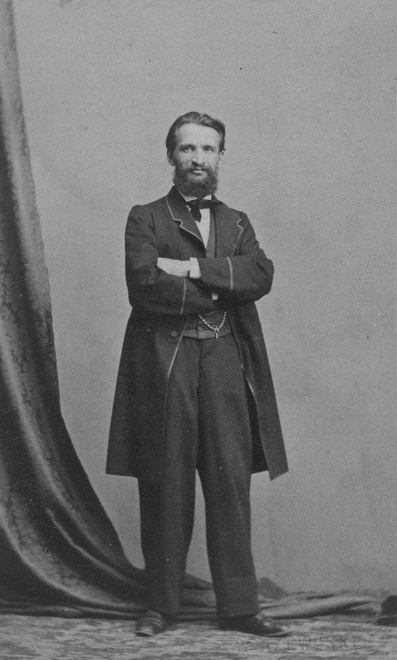 Władysław Ludwik Anczyc